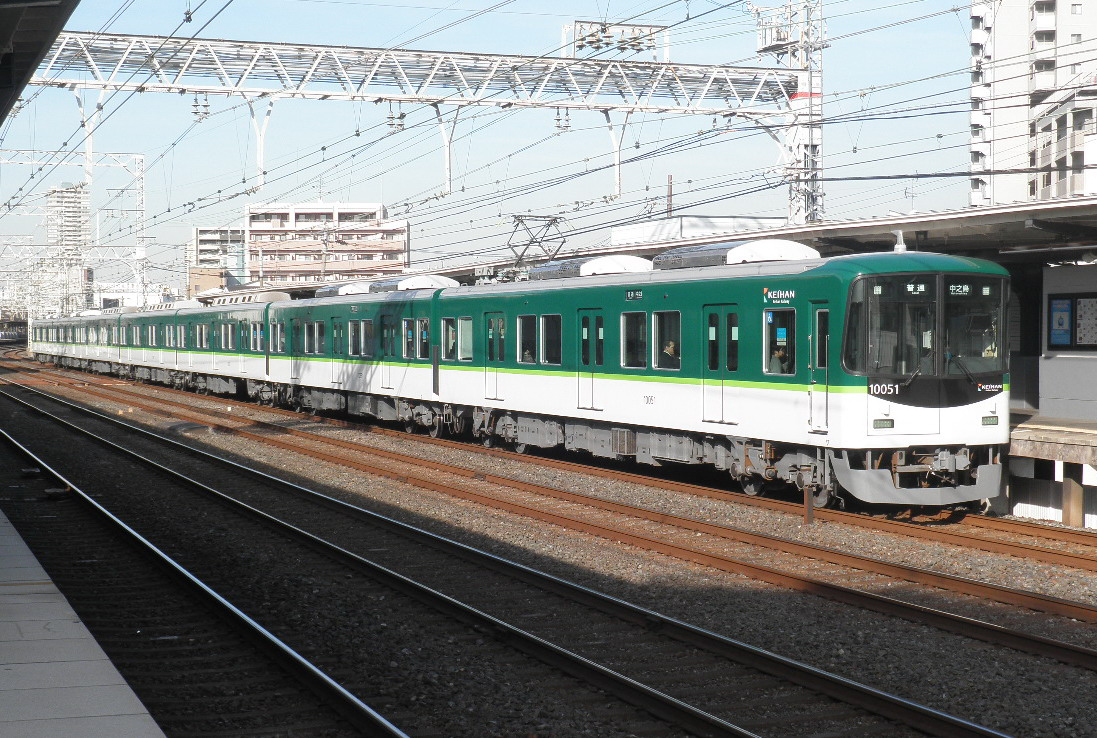 Keihan unit 10051 after its reformation to 7 car train